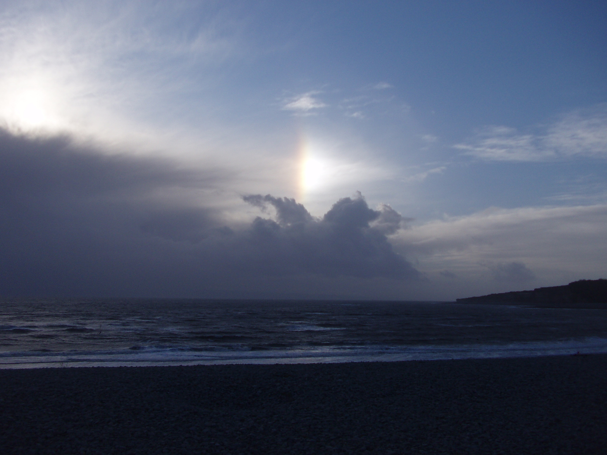 Looking across the Bristol Channel from Porthkerry Park, in Barry, Vale of Glamorgan, South Wales.